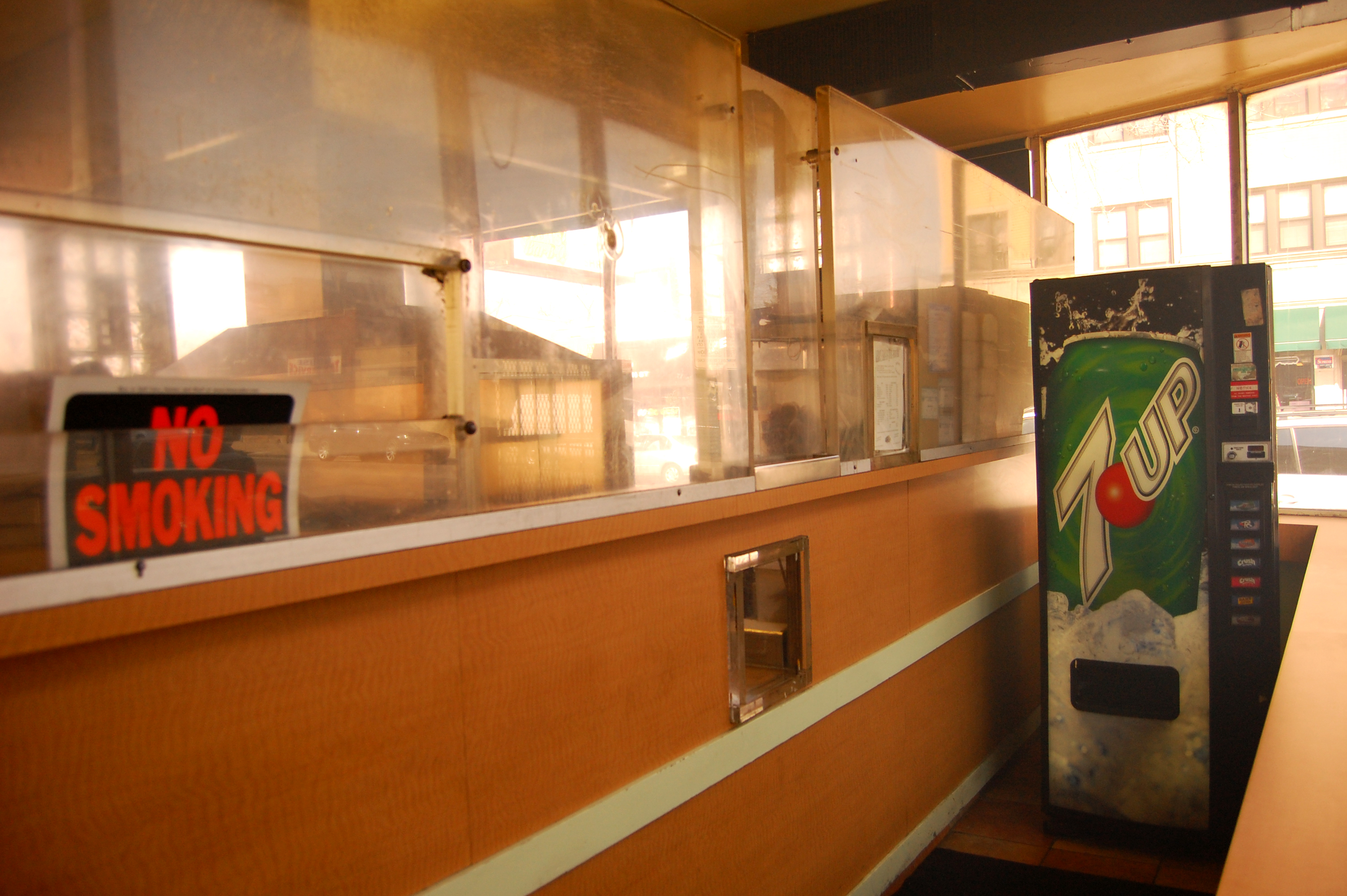 Ordering Counter Lem's Bar-B-Q- Chicago, IL Photo by Amy C Evans, SFA oral historian March 2008